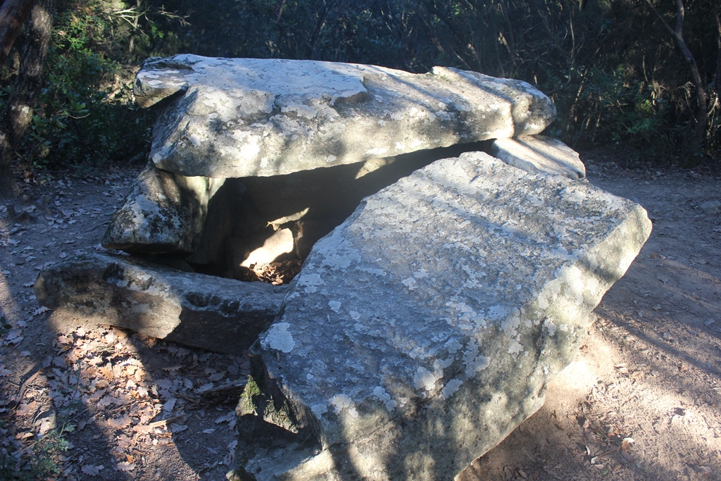 Dolmen Castellruf